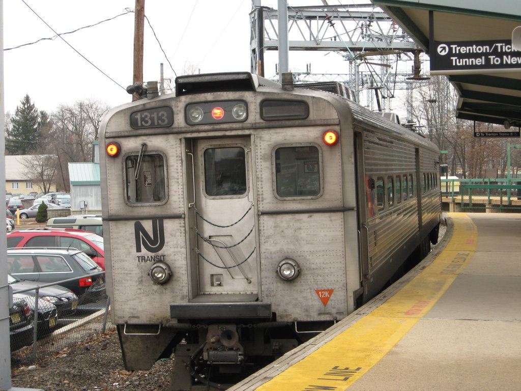 New Jersey Transit car #1313 drops awaits customers on an arriving train on the Princeton Dinky platform